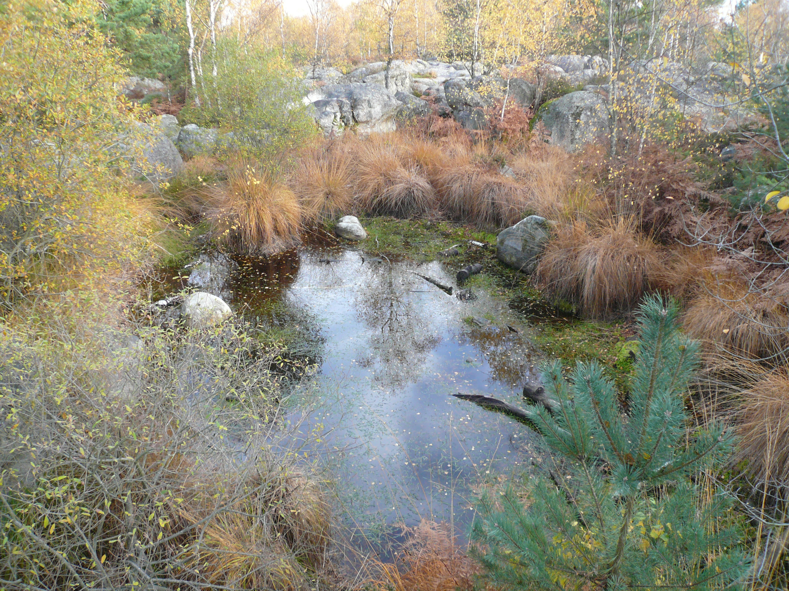 A pond named mare aux biches, in Forest of Fontainebleau, Seine-et-Marne, Île-de-France, France